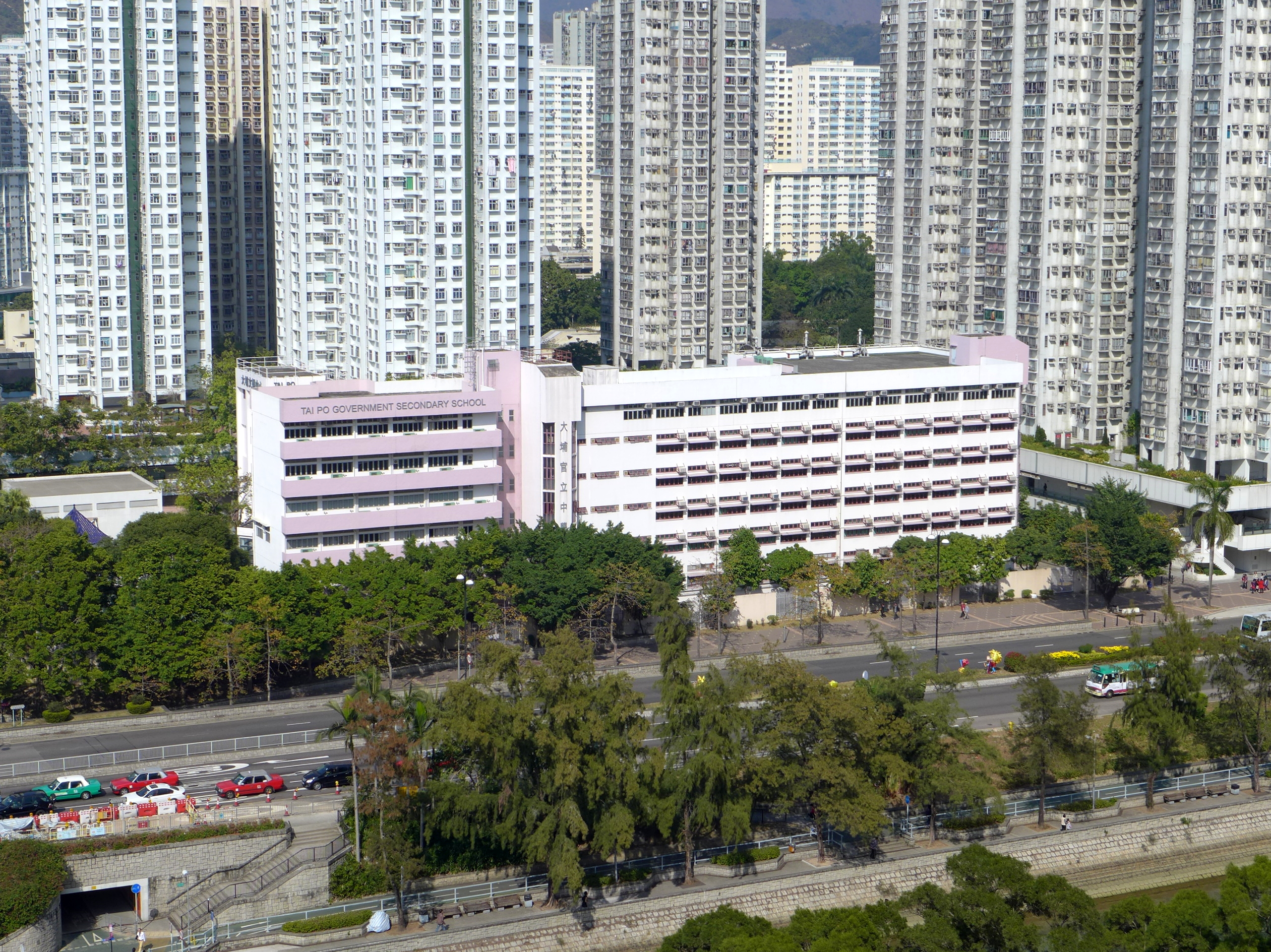 Tai Po Government Secondary School 大埔官立中學